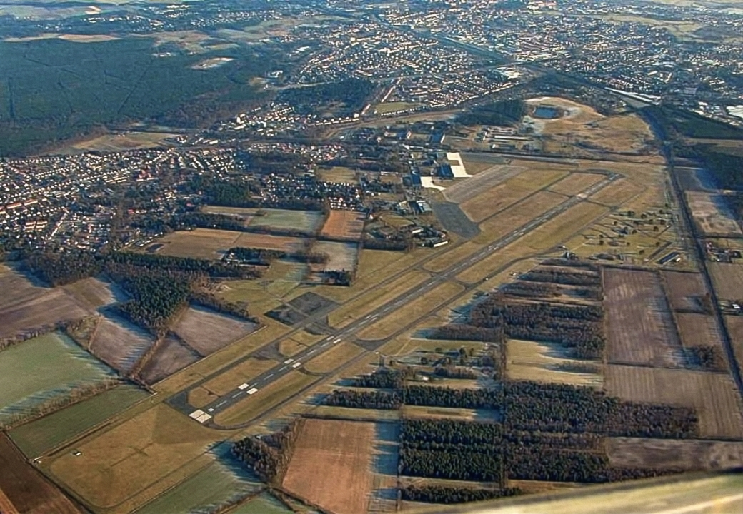 Celle Army Air Field from southwest to northeast (downwind runway 26)